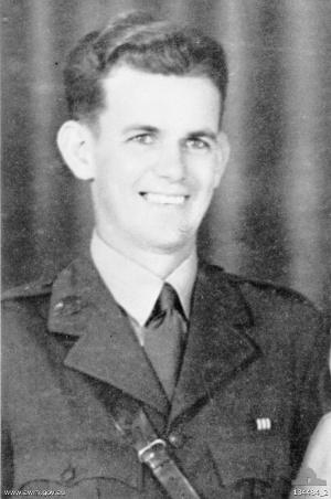 Studio portrait of Lieutenant Albert Chowne VC, MM; Australian Victoria Cross recipient in World War II